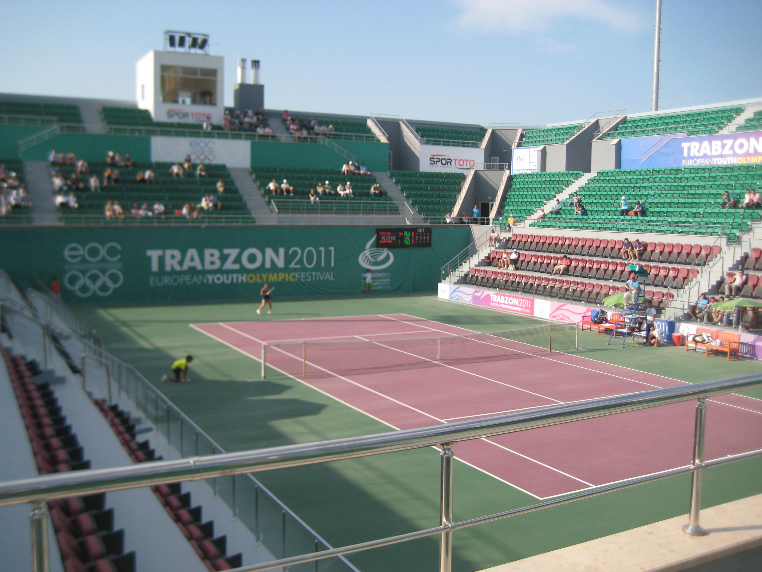 Beşirli Tennis Courts (The main court)